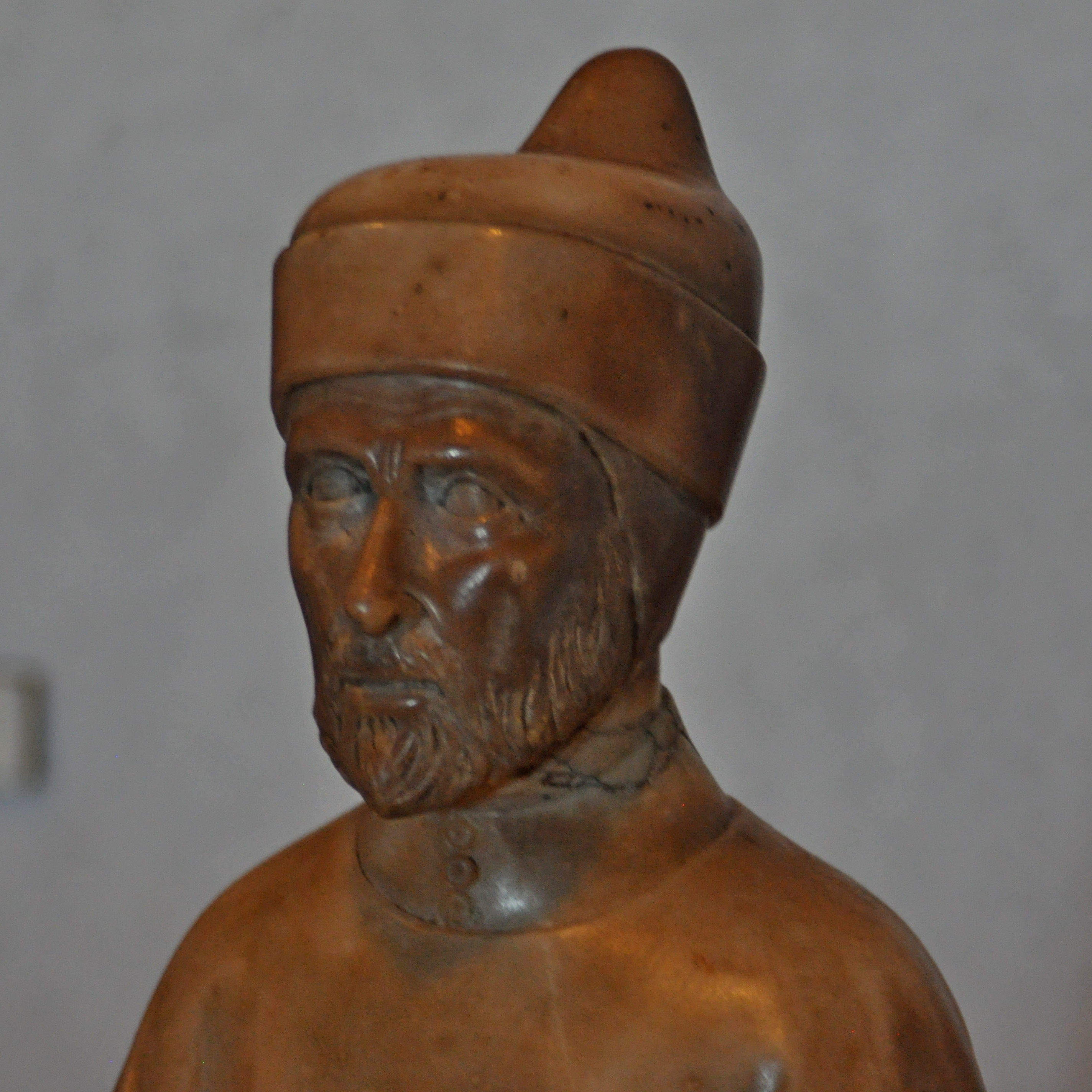 Sculpture of Dux Antonio Venier, by Jacobello dalle Masegne (fl. 1383-1409). Museo Archeologico Nazionale in Venice, Italy.